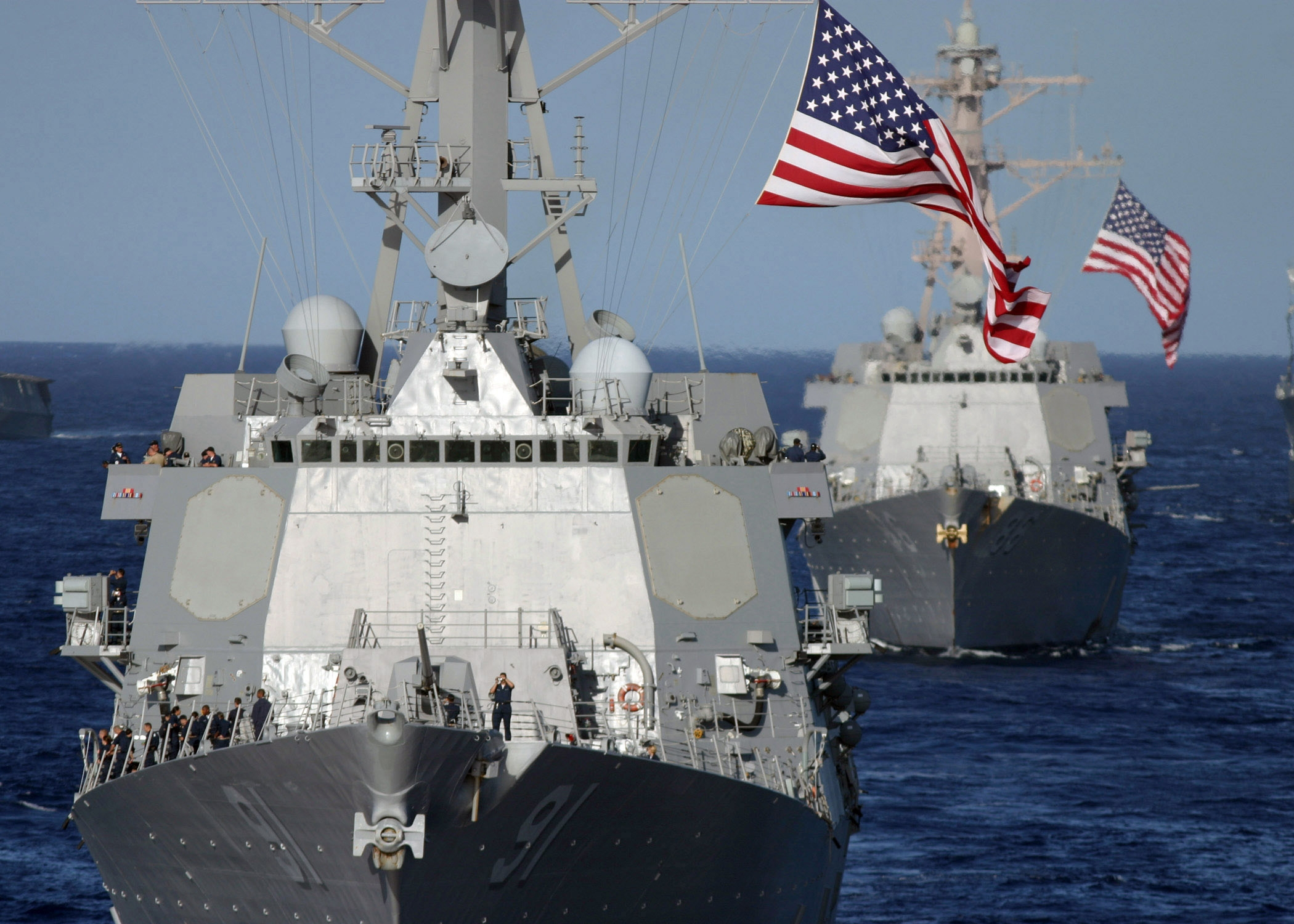 The guided-missile destroyers USS Pinckney (DDG 91) and USS Shoup (DDG 86) sail in formation in the Pacific Ocean off the coast of Hawaii during the exercise Rim of Pacific 2006 on July 25, 2006. The exercise, commonly called RIMPAC, brings together military forces from Australia, Canada, Chile, Peru, Japan, the Republic of Korea, the United Kingdom and the United States in the world's largest biennial maritime exercise.